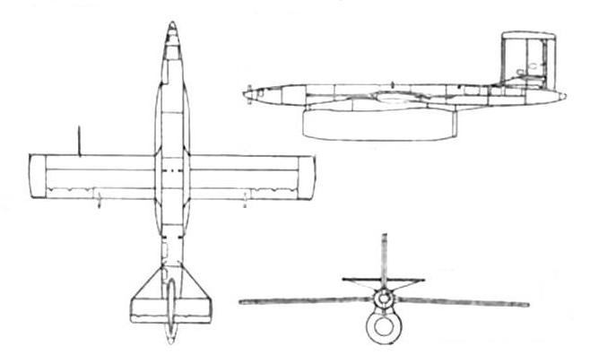 The Soviet unmanned aircraft La-17